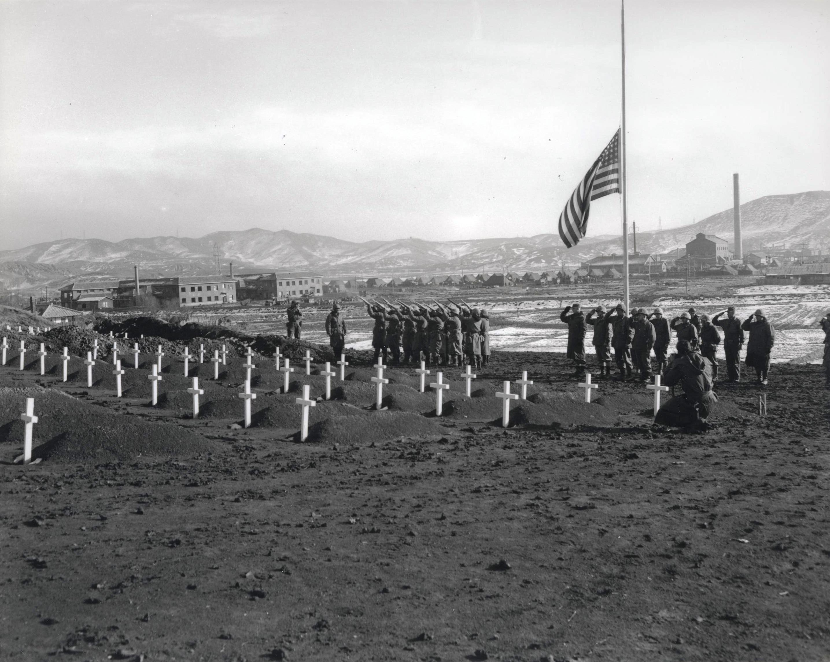 "Marines of the 1st Marine Division pay their respects to fallen buddies during memorial services at the division's cemetery at Hamhung, Korea, following the break-out from Chosin Reservoir." From the Photograph Collection (COLL/3948), Marine Corps Archives & Special Collections OFFICIAL USMC PHOTO